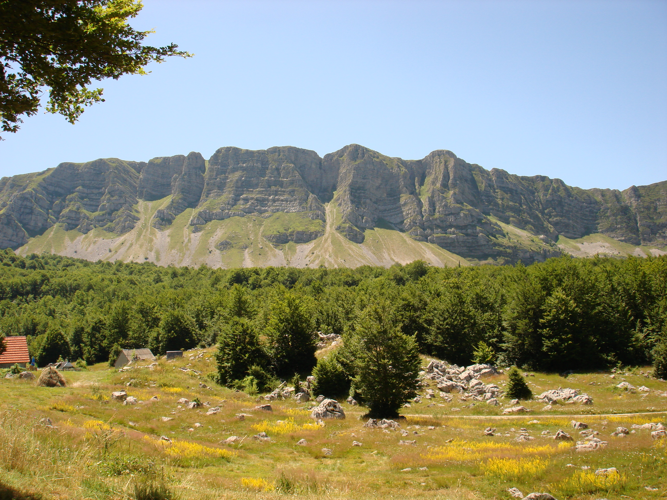 The photo displays the view to the mountain Lebršnik from Sokolovina in Izgori, a village in the vicinity of Gacko in the Eastern Herzegovina.